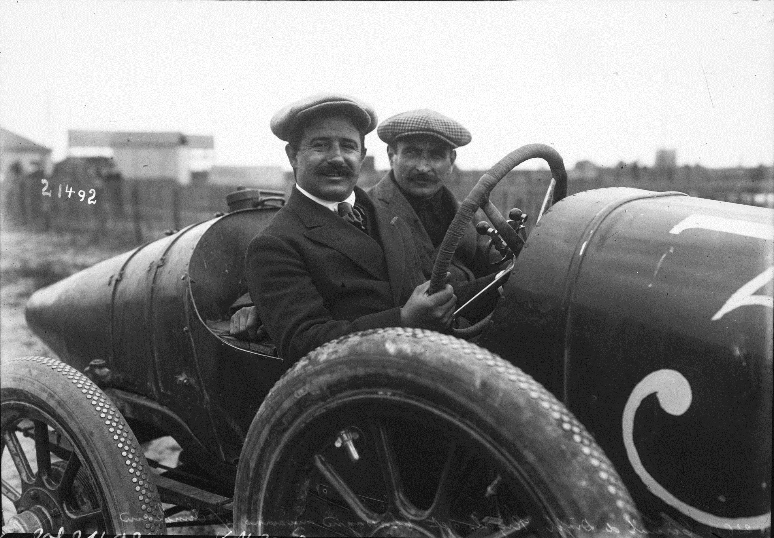 Victor Rigal in his Sunbeam at the 1912 French Grand Prix at Dieppe.